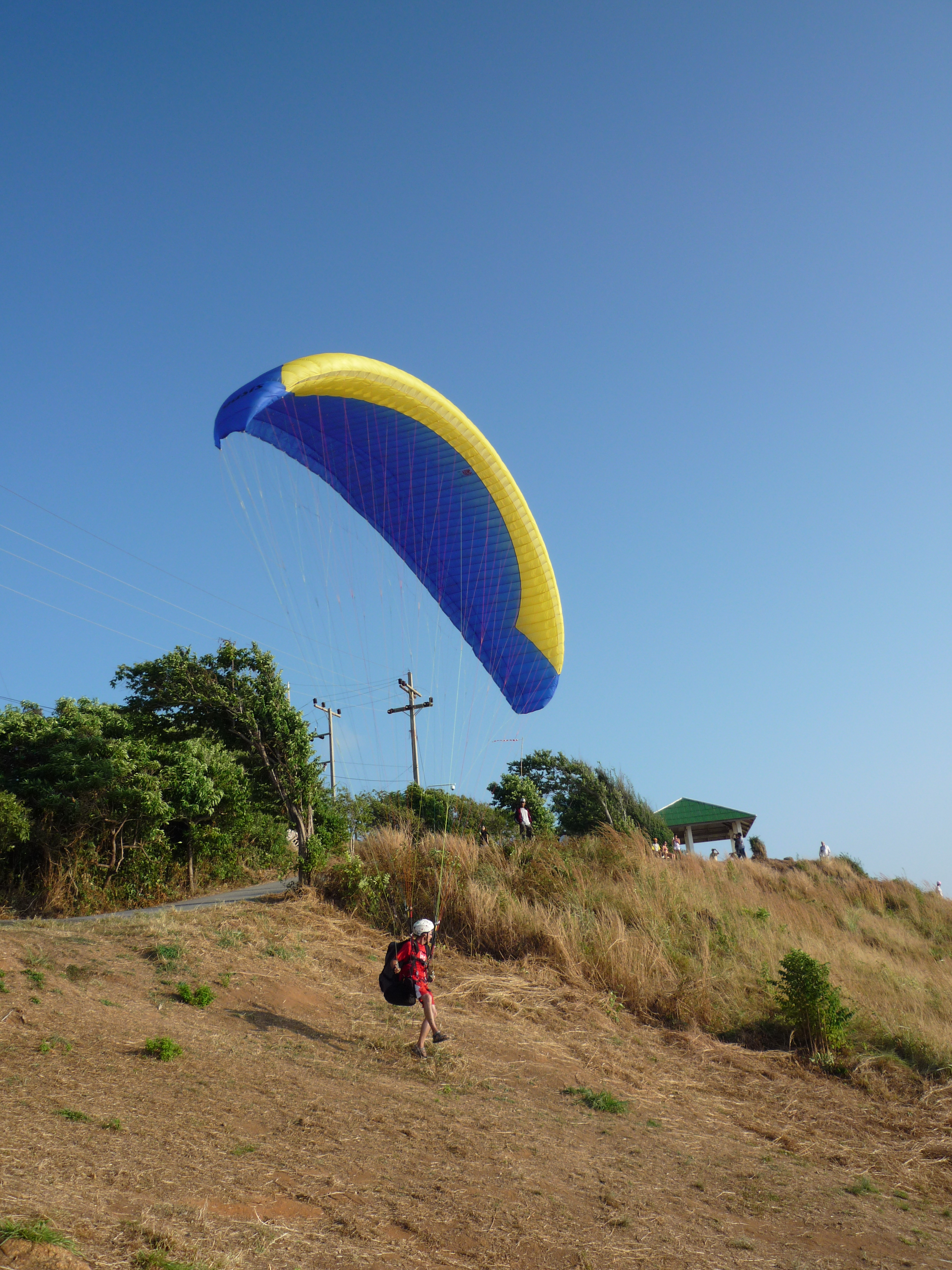 Paraglider: Gin Oasis